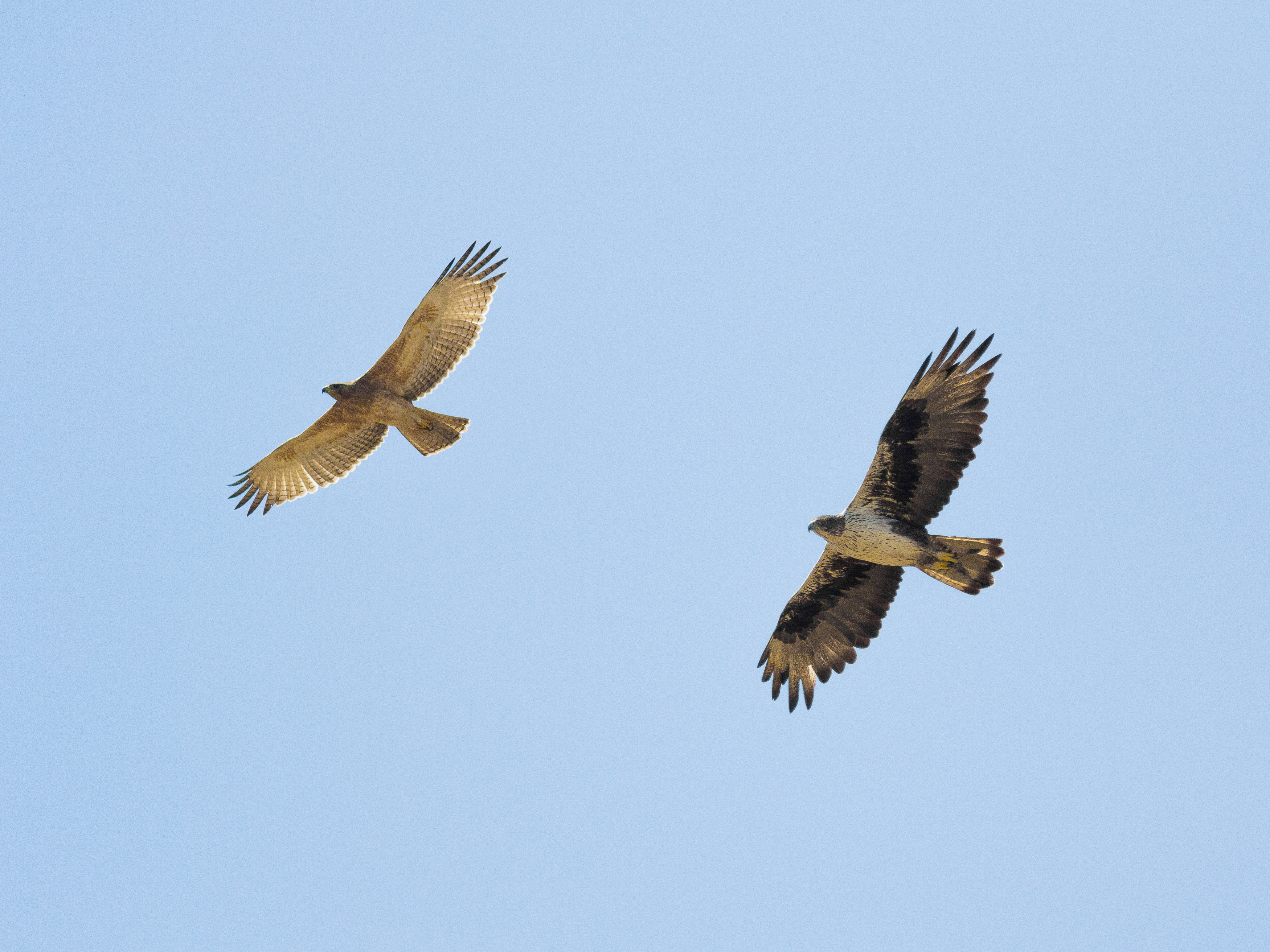 Clicked at Mayreshwar Wildlife Sanctuary, Maharashtra